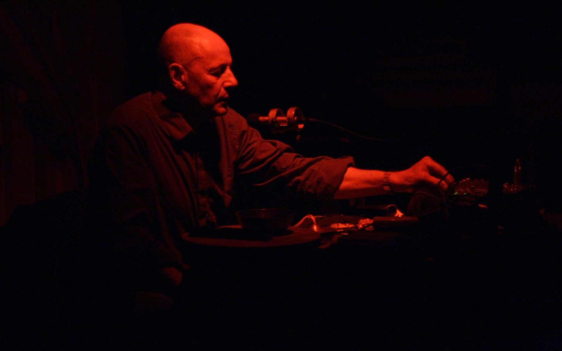 Ghédalia Tazartès: 'Häxan' - Ulrichsberger Kaleidophon (Ulrichsberg, Upper Austria)